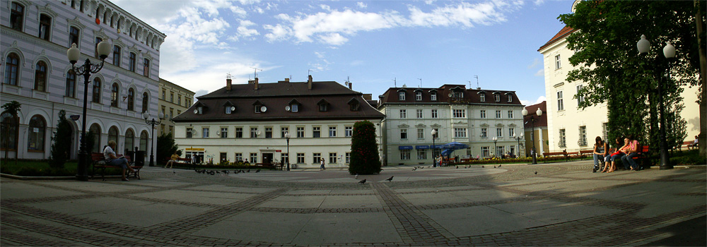 Piastowski Square in Jelenia Góra - Cieplice